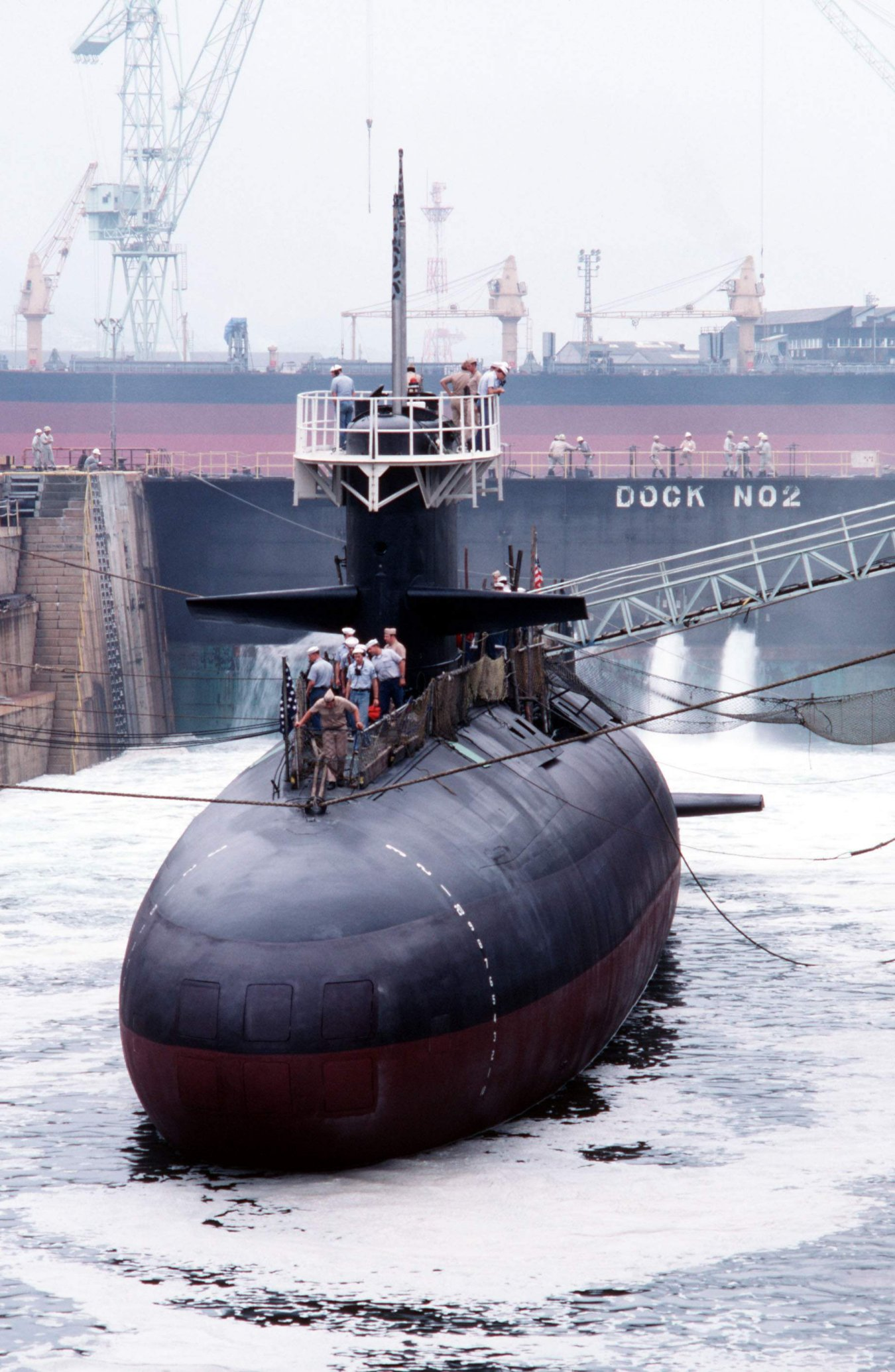 At Dry Dock No.2 which begin to fill with water, the workers are manually turning the swivels to increase the flow. On the Barbel (SS-580), crew members stand at the railing of the attack submarine as the dry dock in which it is positioned is filled with water to refloat the vessel following repairs. The Barbel is completing a Docking Selected Restrictive Availability (DSRA) at Saebo Heavy Industries on 6 Oct 1988.